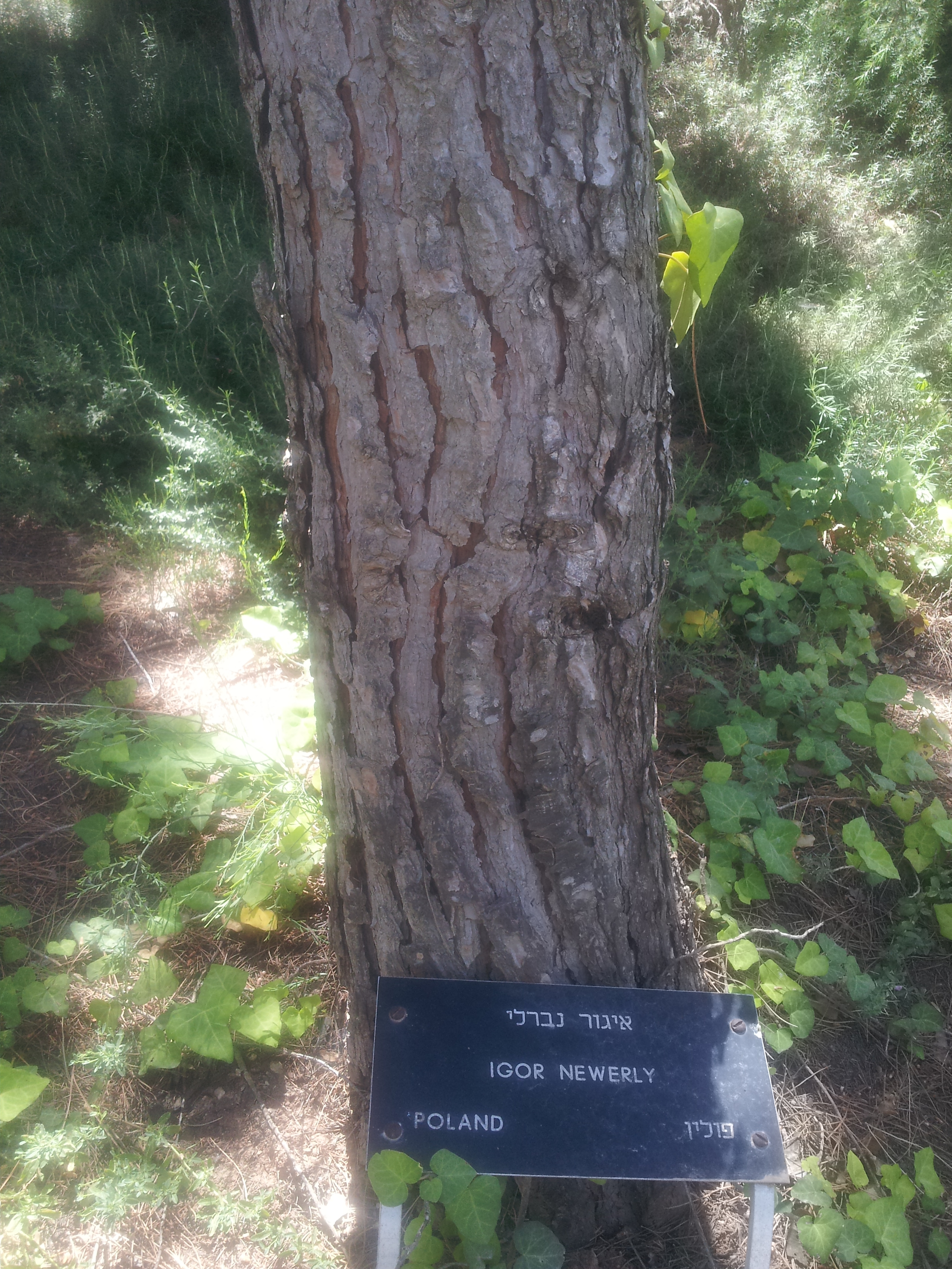 Righteous Among the nations Igor Newerly tree at Yad Vashem